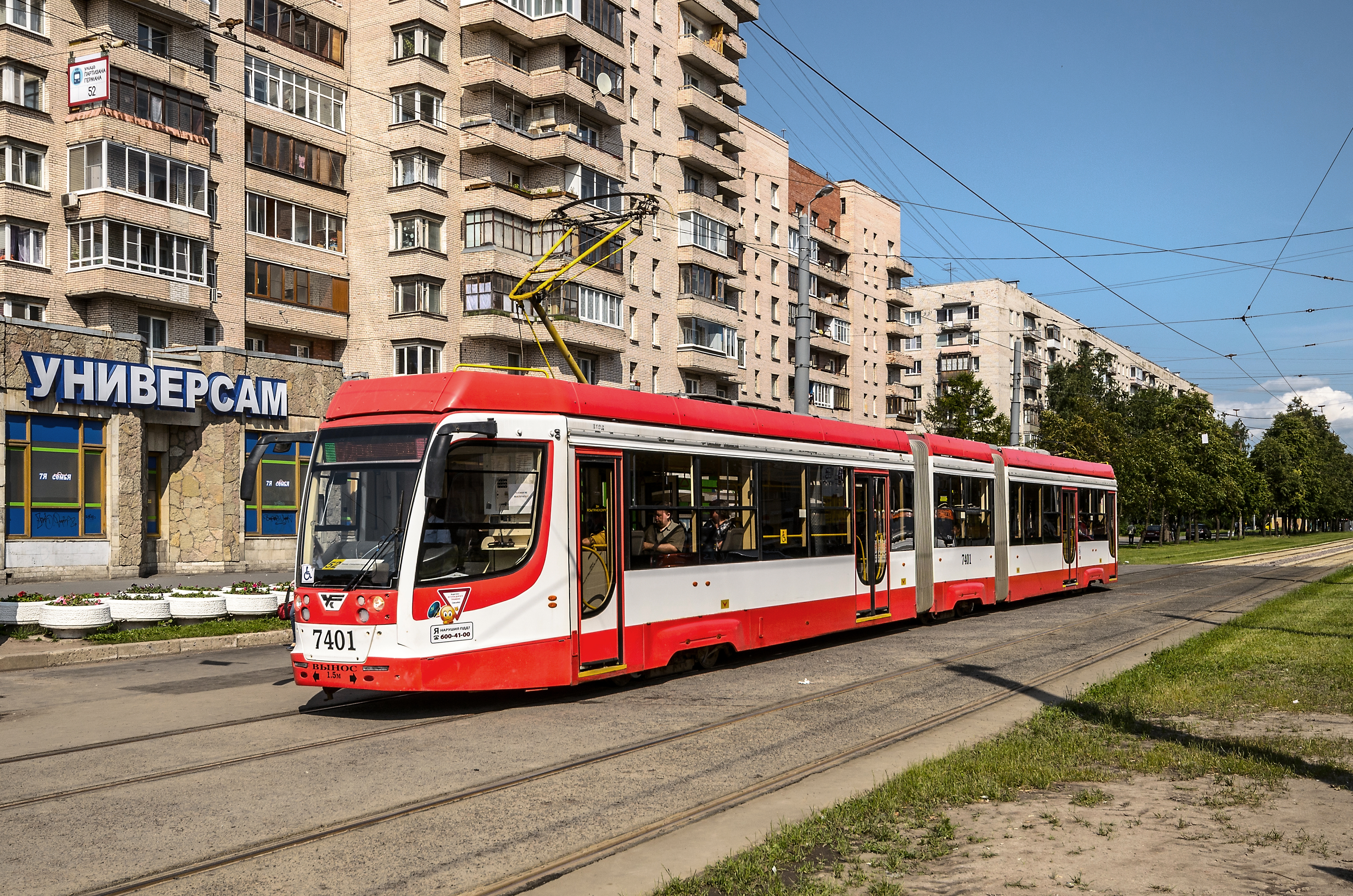 Tram 71-631-02 (KTM-31) at Veteranov Avenue in Saint Petersburg